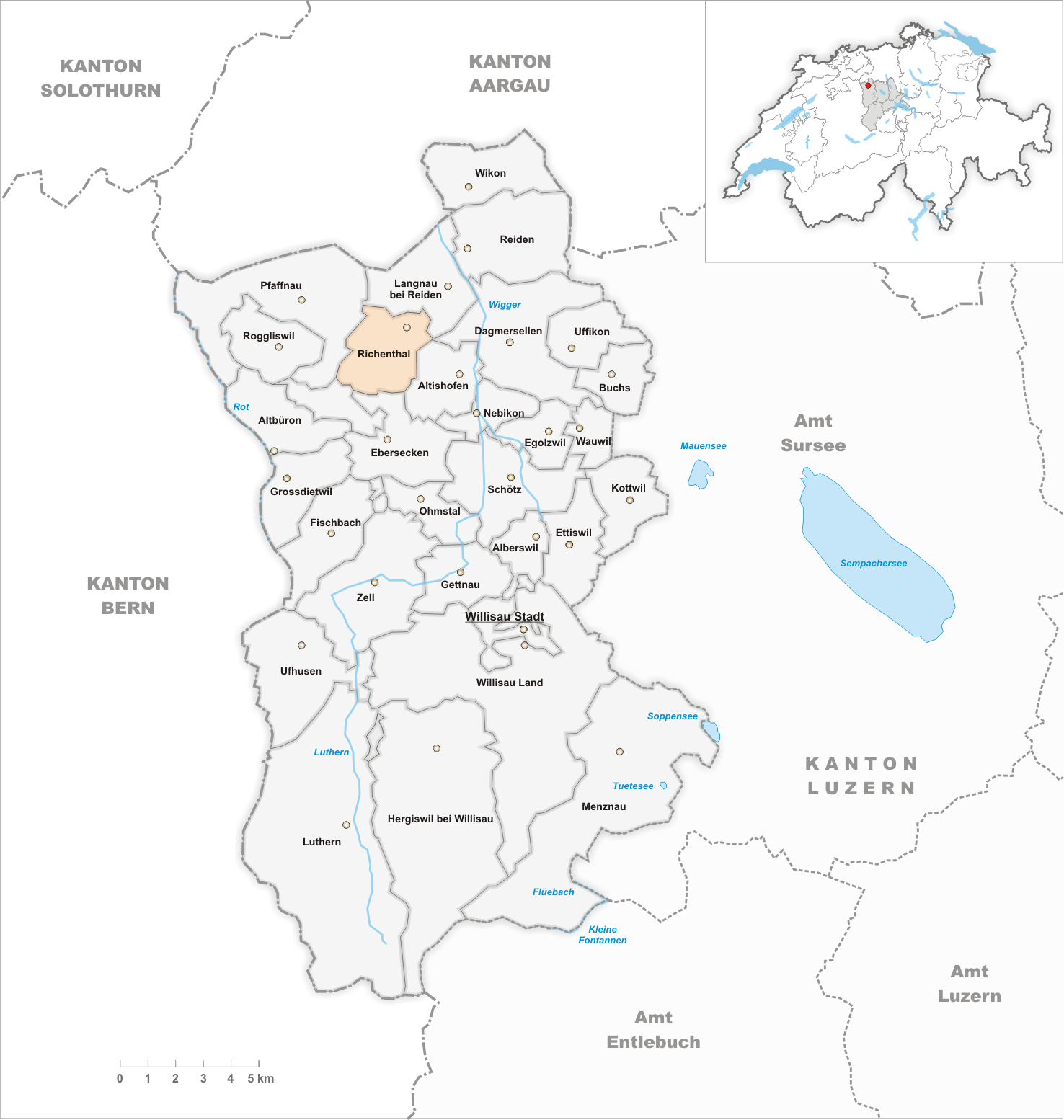 Municipality Richenthal Artist: Tschubby